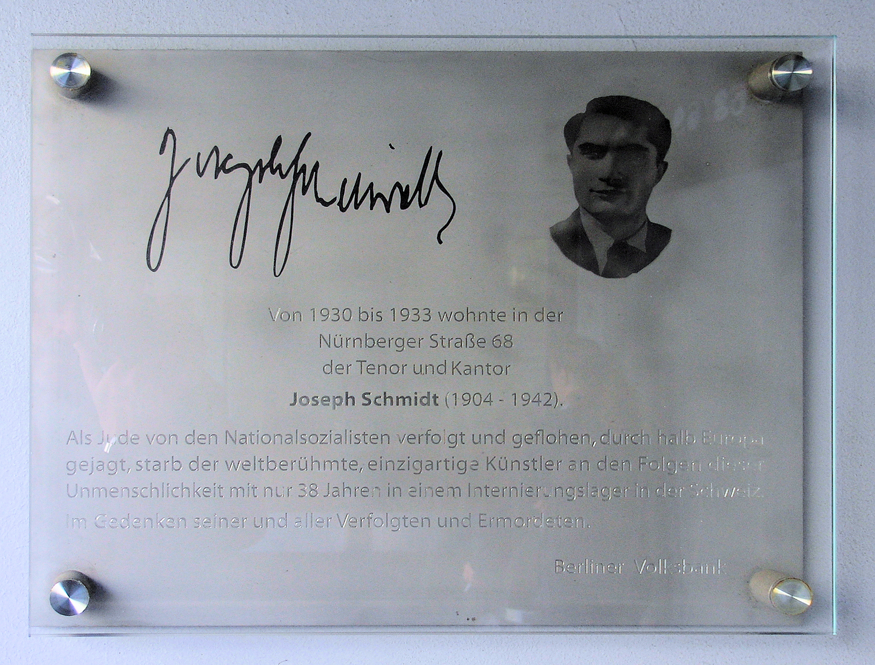 Memorial plaque, Joseph Schmidt, Nürnberger Straße 68, Berlin-Schöneberg, Germany Koordinate:52°30′17″N 13°20′28″E / 52.50472°N 13.34111°E